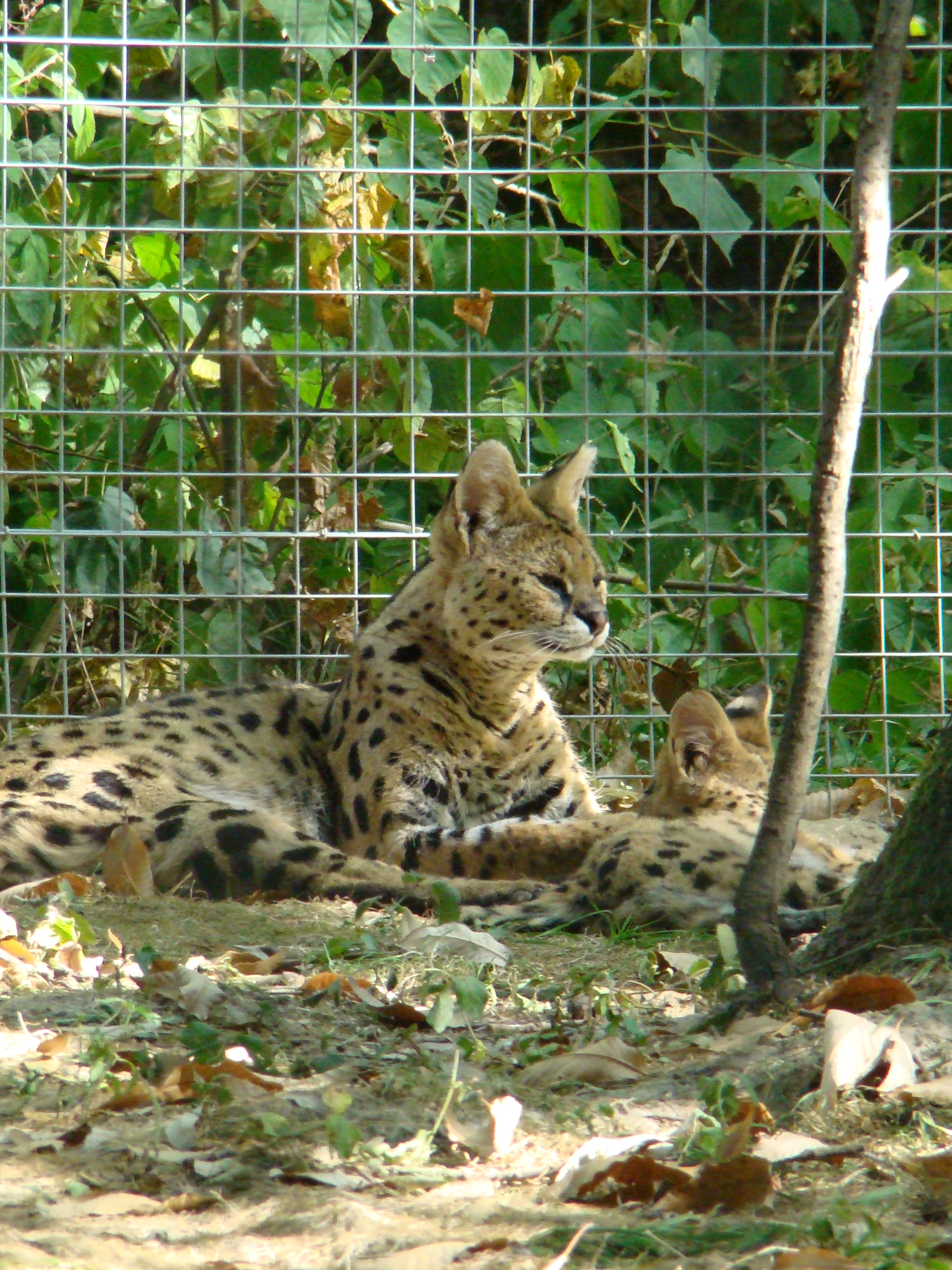 A serval with three cubs (Leptailurus serval) in Parc des félins